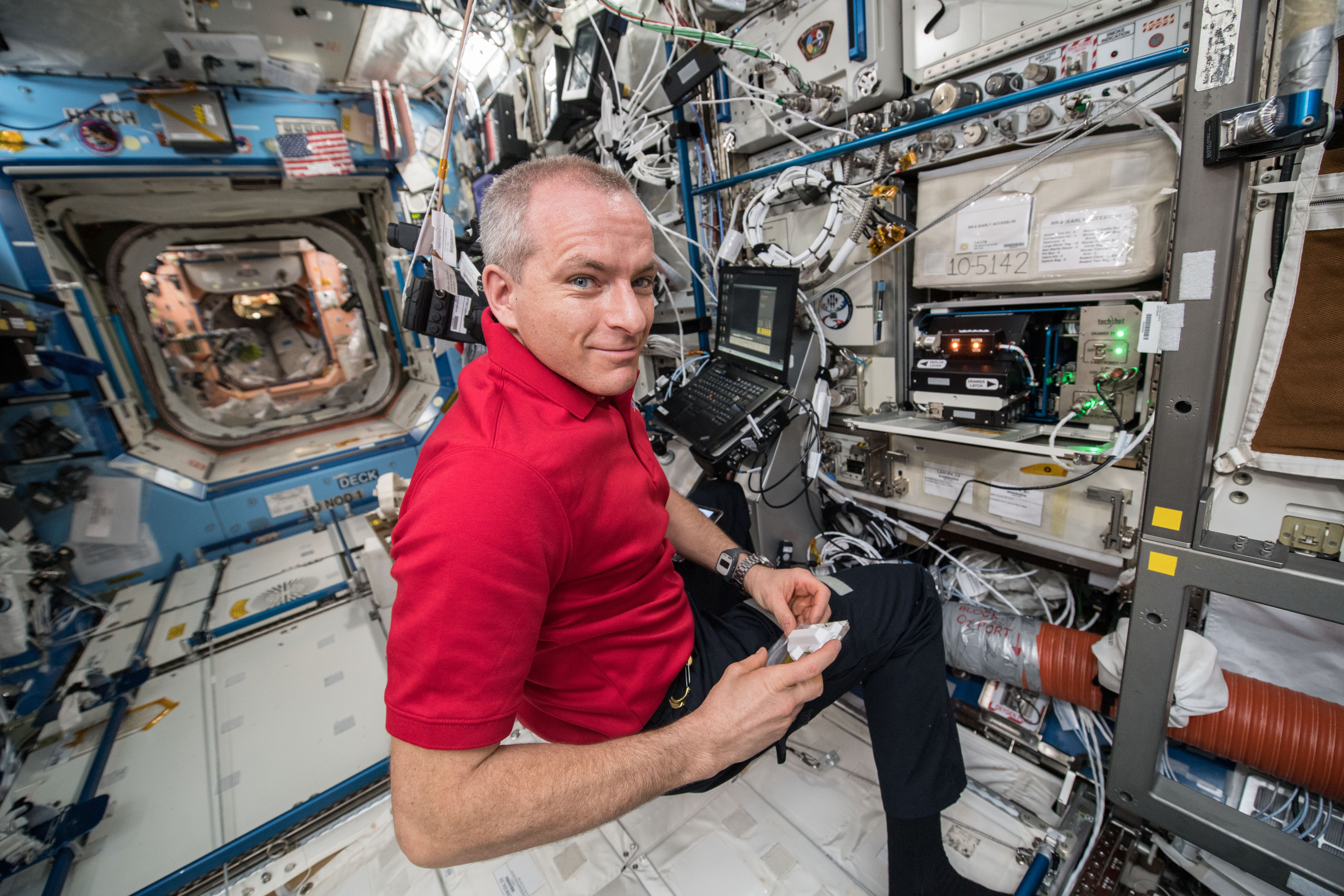 David Saint-Jacques, of the Canadian Space Agency, completes the Bone Densitometer calibration in support of the Rodent Research-8 investigation.